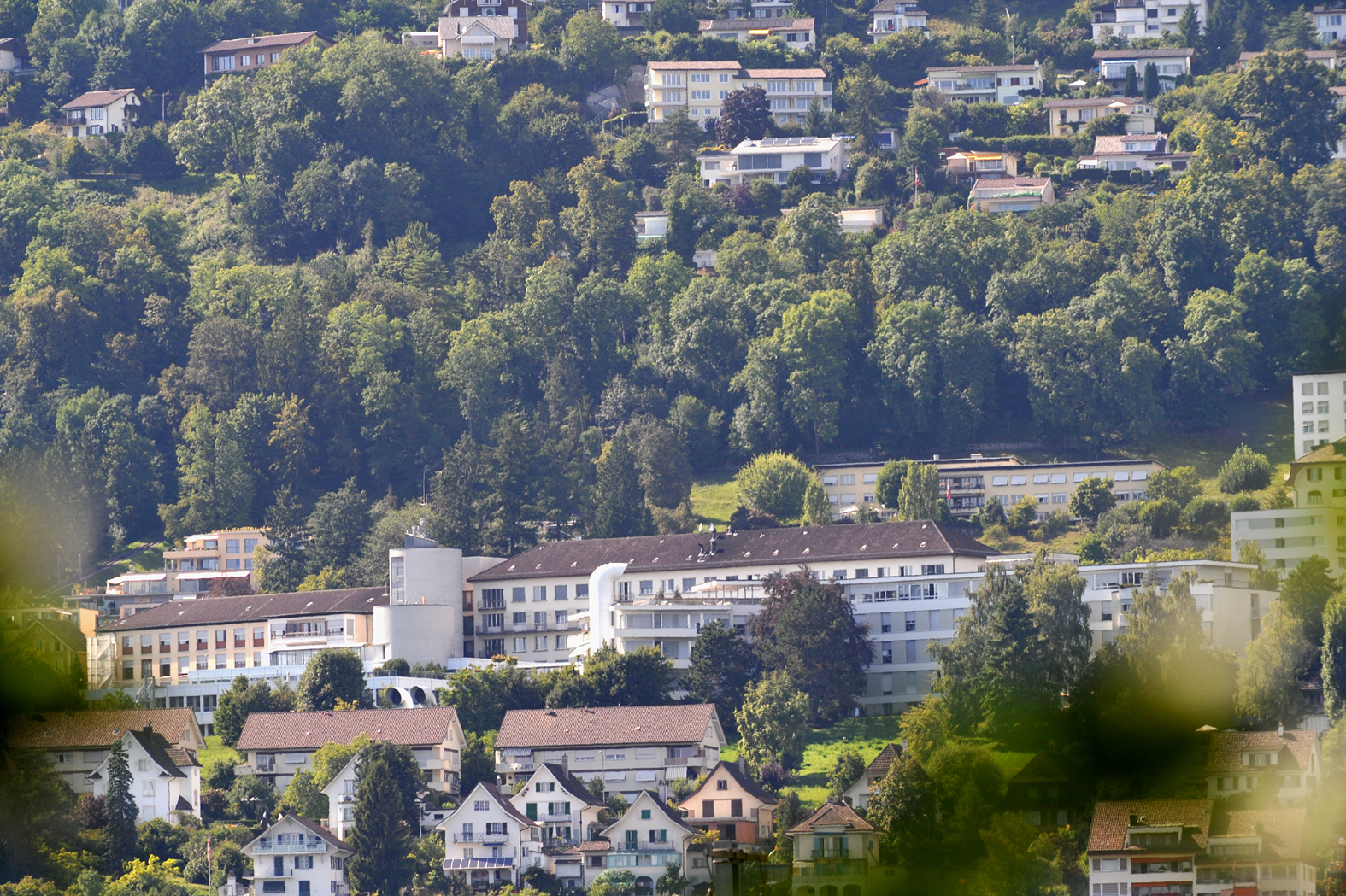 Spitalzentrum Biel, view from Marie-Louise-Blösch-Weg; Berne, Switzerland.